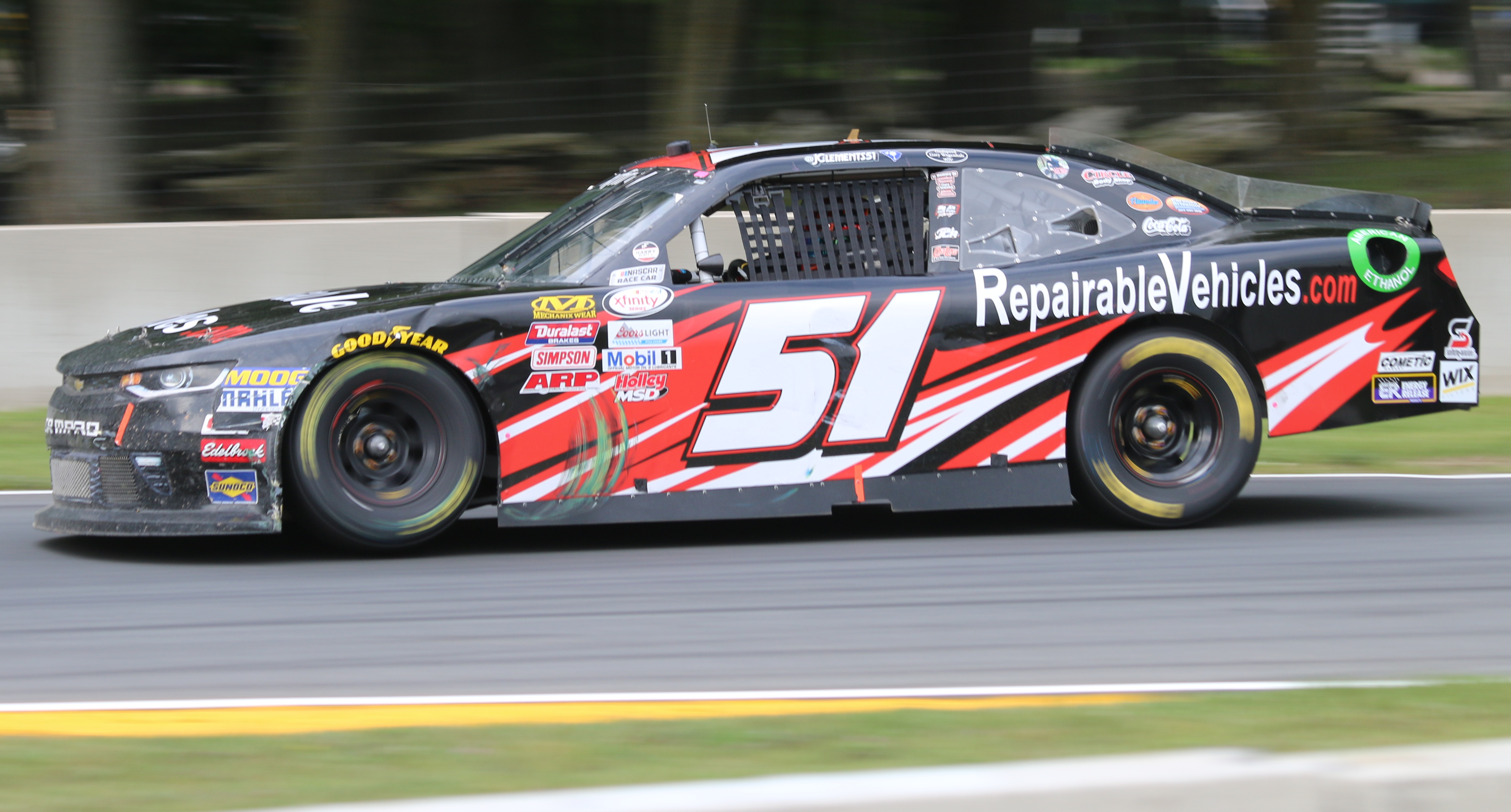 The Chevrolet Camaro of winner Jeremy Clements at the NASCAR Xfinity Series Johnsonville 180.